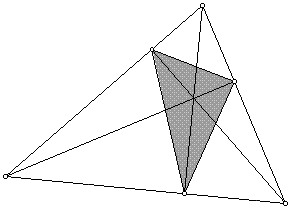 The pedal triangle of a triangle.